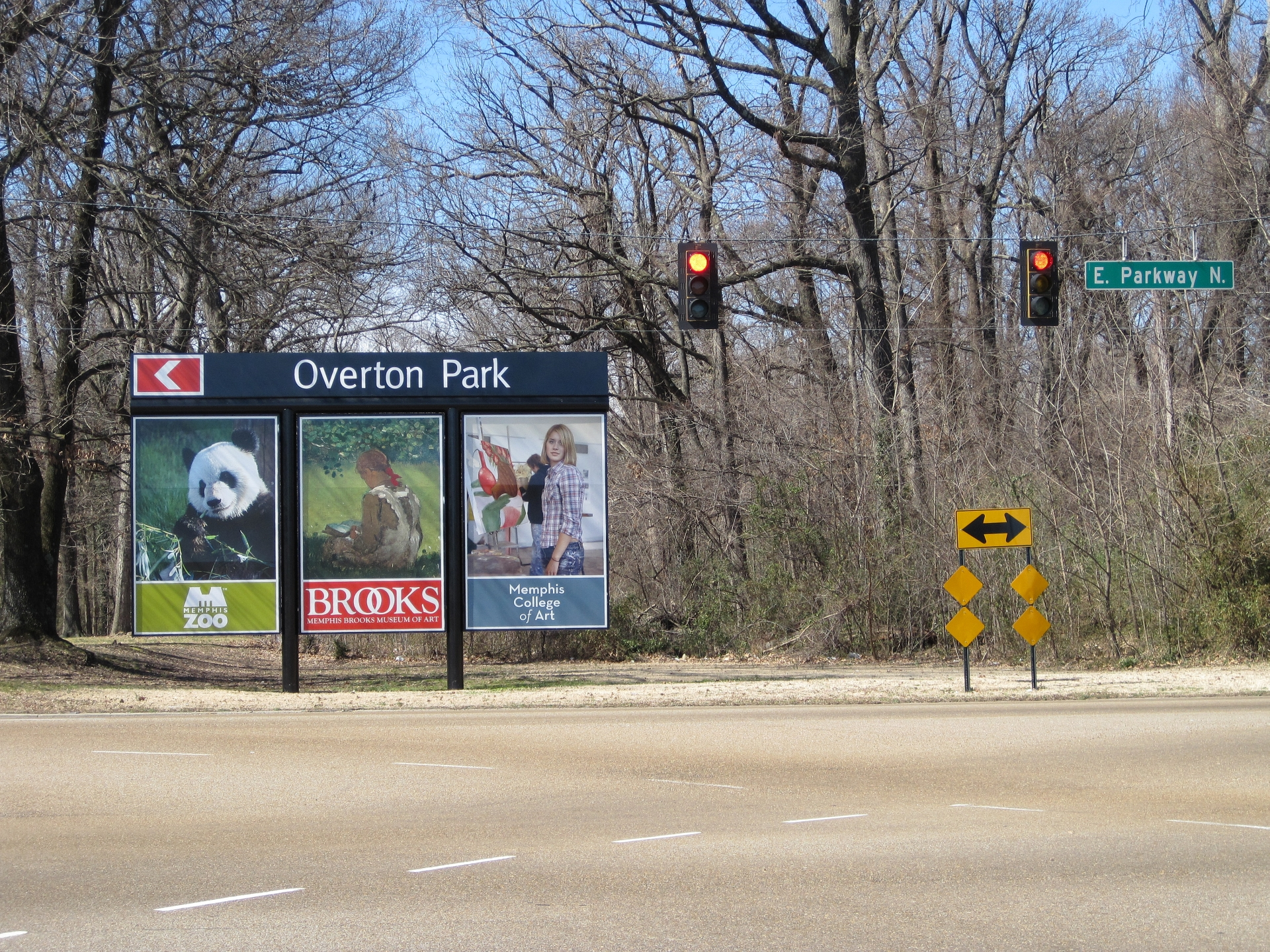 Overton Park Billboard at the western terminus of Sam Cooper Bouleward at East Parkway North in Memphis, Tennessee.